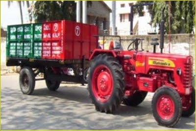 This is the tractor for collecting the garbage